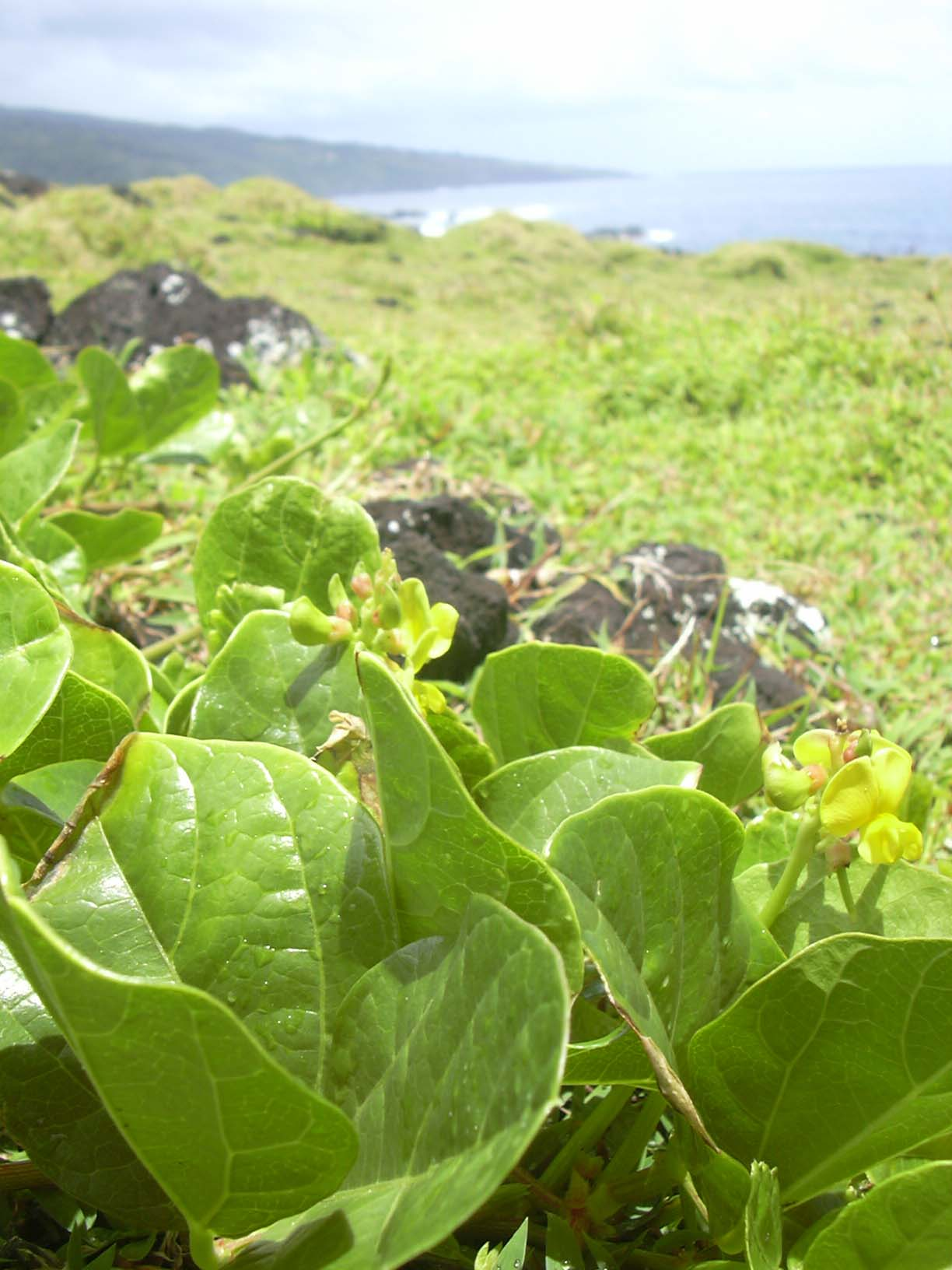 Vigna marina (flowers). Location: Maui, Puhilele Pt Haleakala National Park